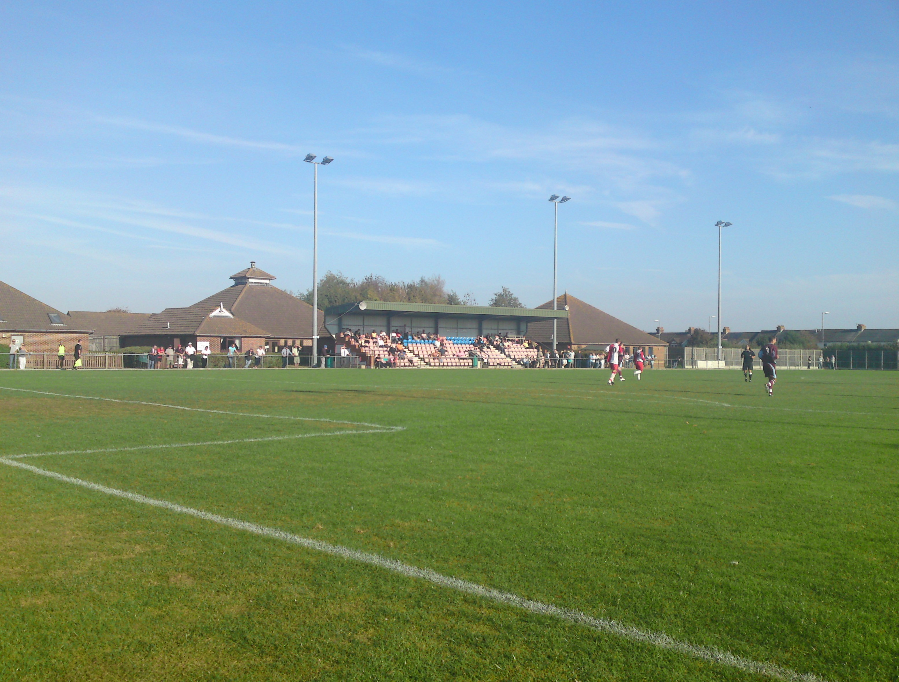 Fawcetts Field, the home ground of New Milton Town FC.